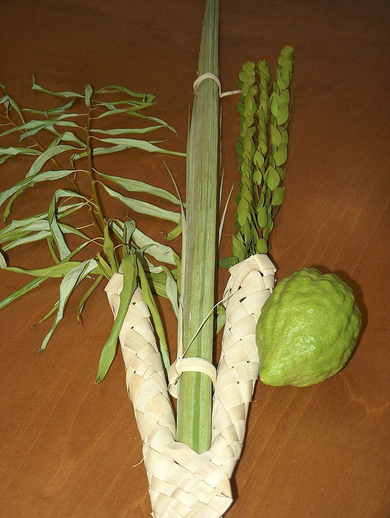 Arbaat HaMinim - The Four Species of Sukkot - Etrog (Citron), with branches of Lulav (Date Palm), Hadas (Myrtle) and Aravot (Willow). Pictured as traditionally bound, with Hadas on the right, and Aravot on the left.